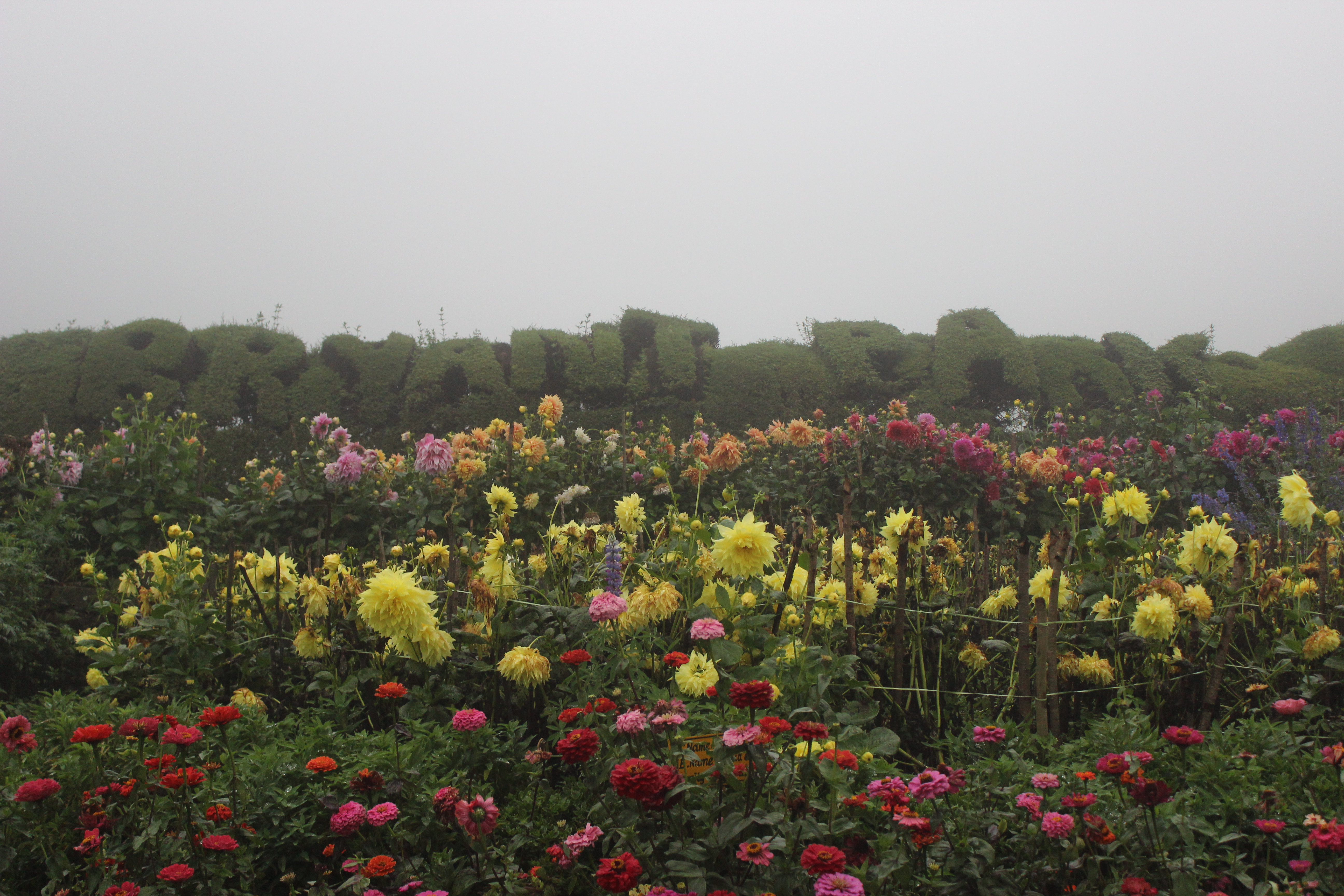 Flower Show in Bryant Park, Kodaikanal